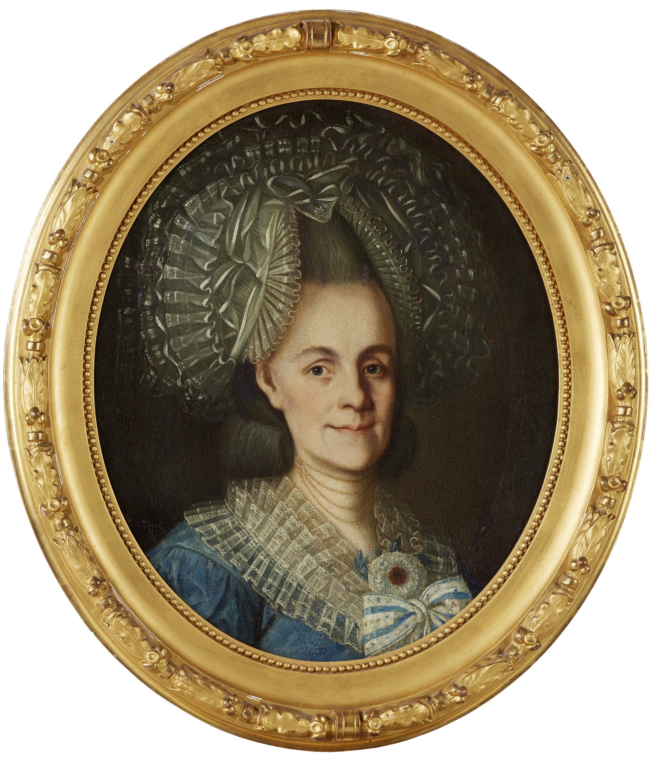 Anna Elisabet Kraftman (1751-1785) iklädd blå kofta, spetsfischy och vit mössa. Målning av Emanuel Thelning (1767-1831) och från 1780-talet. Registrerade i Svenska porträttarkivet (SPA) 1919:105 och 1919:102 Proveniens: Överstelöjtnant Carl Fredrik Ekestubbe, Olkkala, Vichtis, Nyland, Finland därefter i arv till hans son häradshövdingen lagman Carl Johan Ekestubbe (1763-1821), Lampola, Halikko socken, Finland därefter i arv till hans son underlöjtnant Reinhold Ferdinand Ekestubbe (1807-1880) därefter i arv till hans son överstelöjtnant Mauritz Ekestubbe (1848-1876), Jupper gård, Esbo, Finland därefter i arv till hans dotter Julia Ekestubbe (1875-1957), g.m. kammarherre greve Christer Bonde af Björnö (1869-1956), Hässelby, Uppland därefter genom arv till nuvarande ägare.